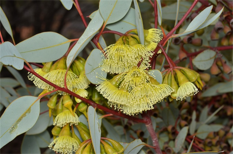 Flower buds and flowers of Eucalyptus piminiana in the Australian Arid Land Botanic Gardens, Port Augusta, South Australia